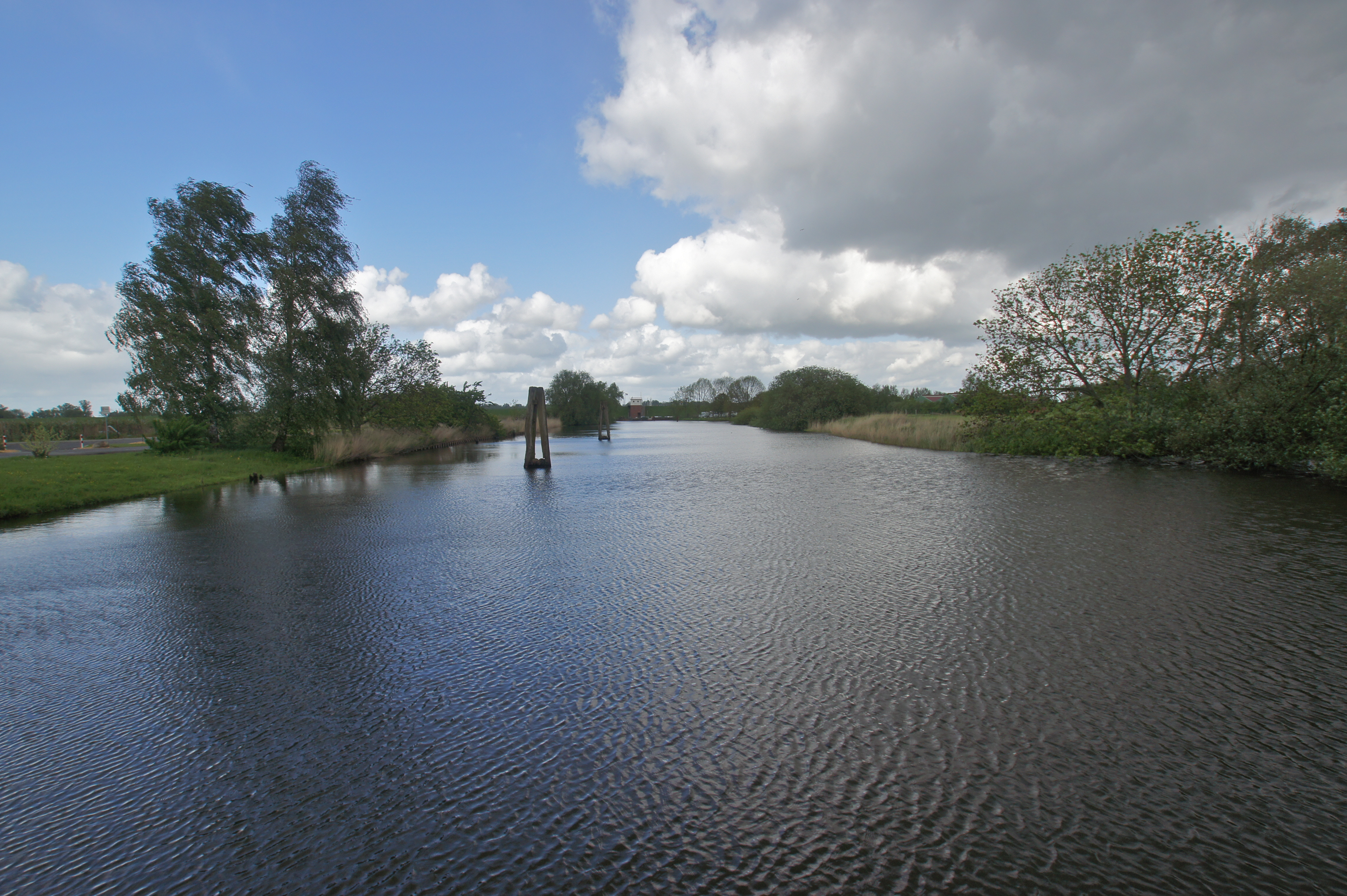 Borstel (Jork) (Neuenschleuse), Germany: Former river port outside the dike on theNeuenschleuser Wettern